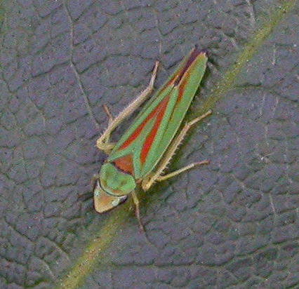 Close up of Rhododendron Leafhopper (Graphocephala fennahi), Kenton Hills, Leiston, Suffolk, England, 4 September 2008, on rhododendron